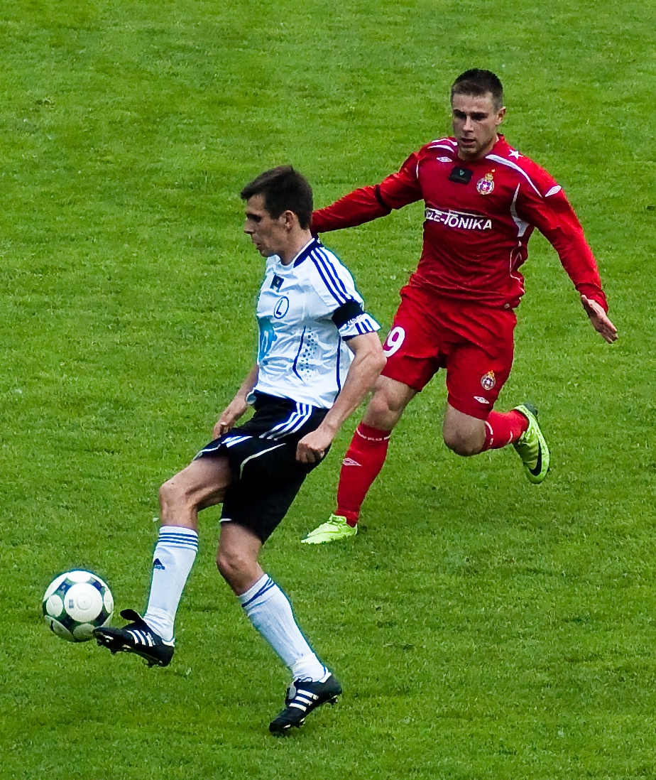 Patryk Małecki, Tomasz Kiełbowicz